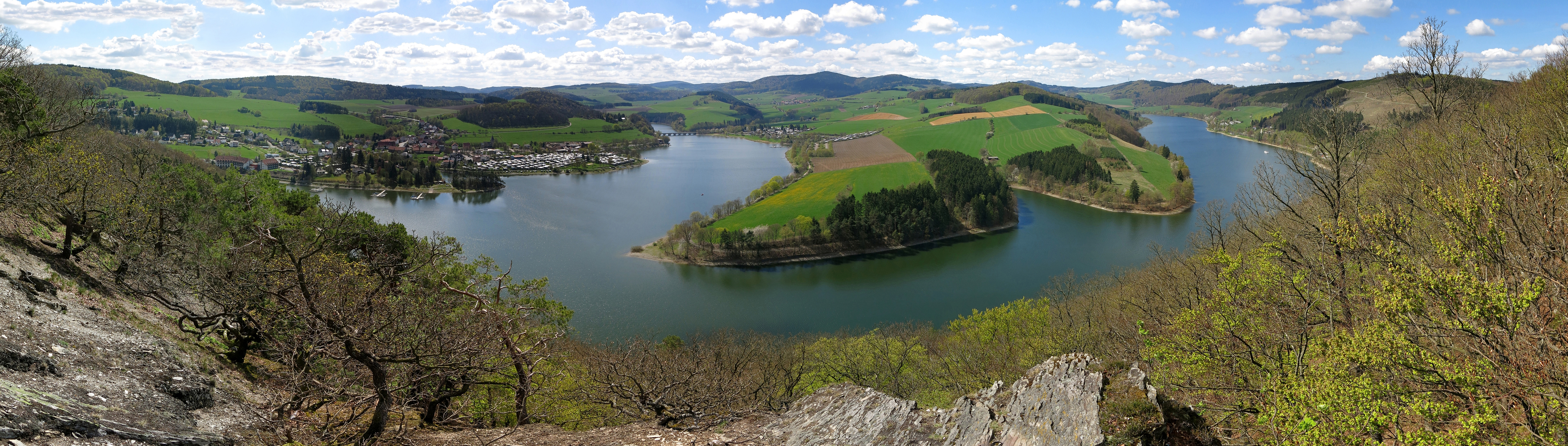 Panoramiv view from the rocks of St. Muffert over the Diemelsee in the north-west of Hesse